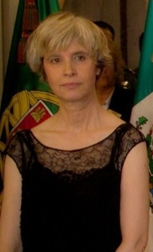 Assunção Esteves, President of the Assembly of the Portuguese Republic in 2014.